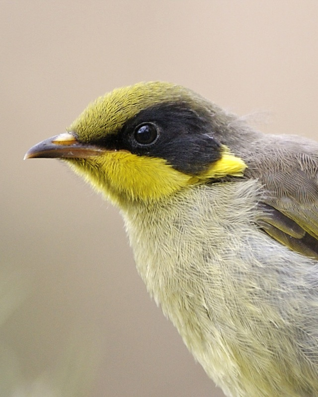 Yellow-tufted Honeyeater Lichenostomus melanops Brisbane Ranges, Victoria, Australia 10th. November 2008